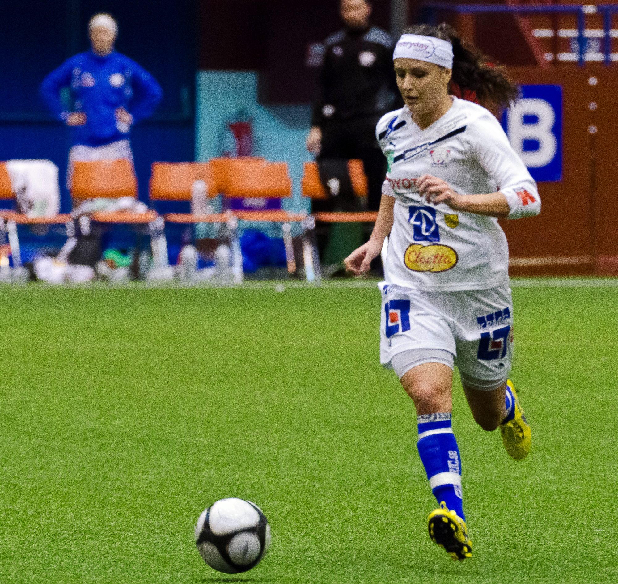 Josefine Alfsson playing a pre-season game for Linköping, February 2012.